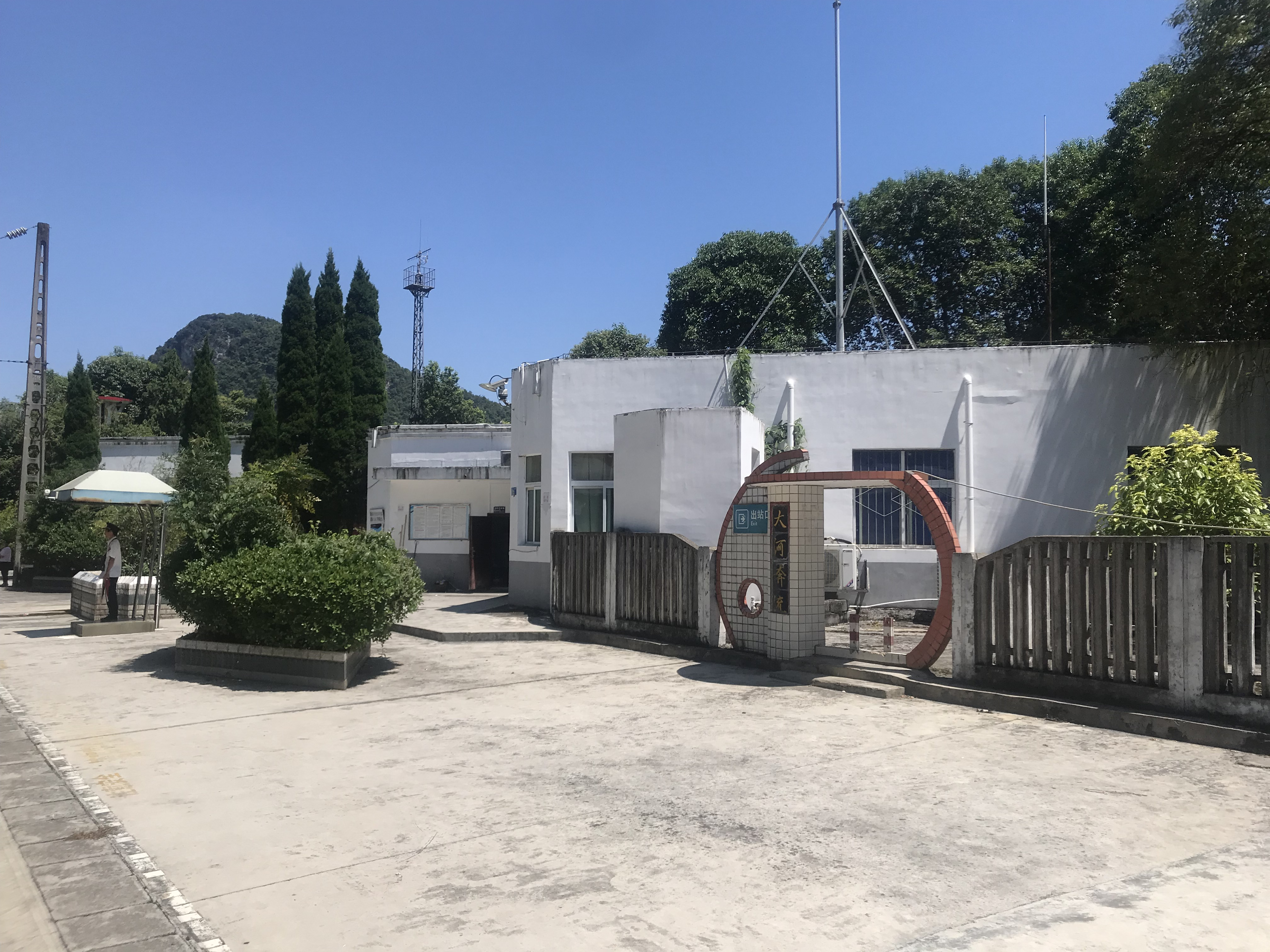 201908 Station Building of Daheba